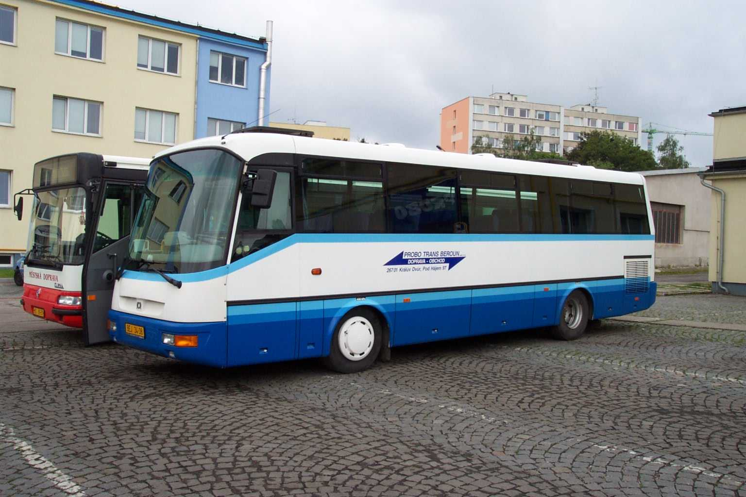 Beroun, buses of types Irisbus Citybus and SOR C 9,5 - Autobusy typů Irisbus Citybus a SOR C 9,5 v Berouně